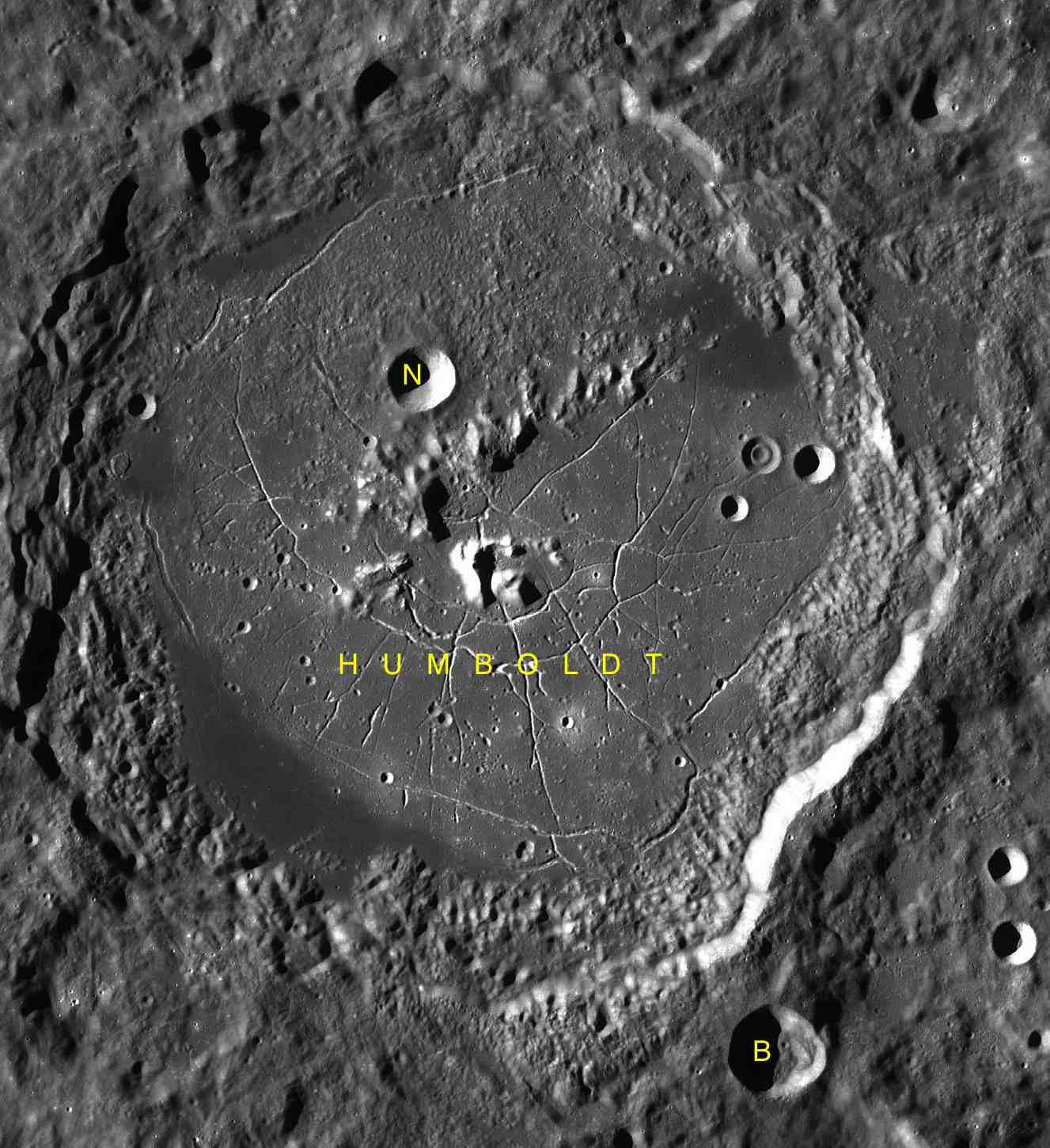 Part of the chart LAC-99 used for the presentation